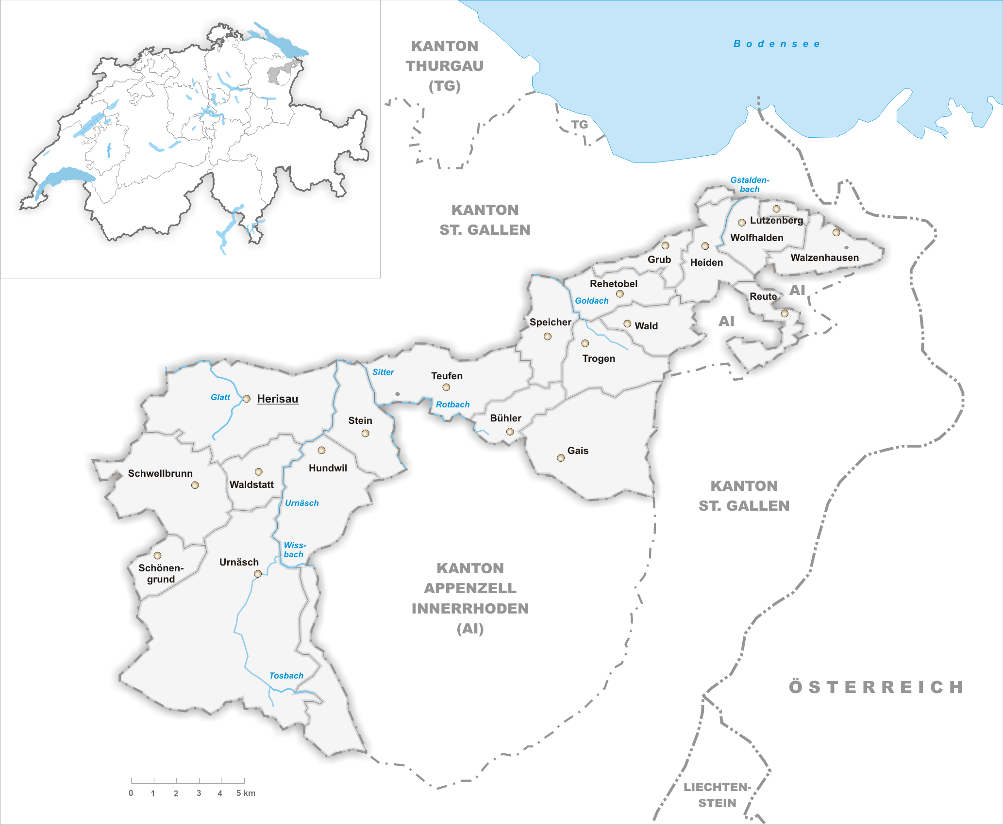 Municipalities in the canton of Appenzell Ausserrhoden